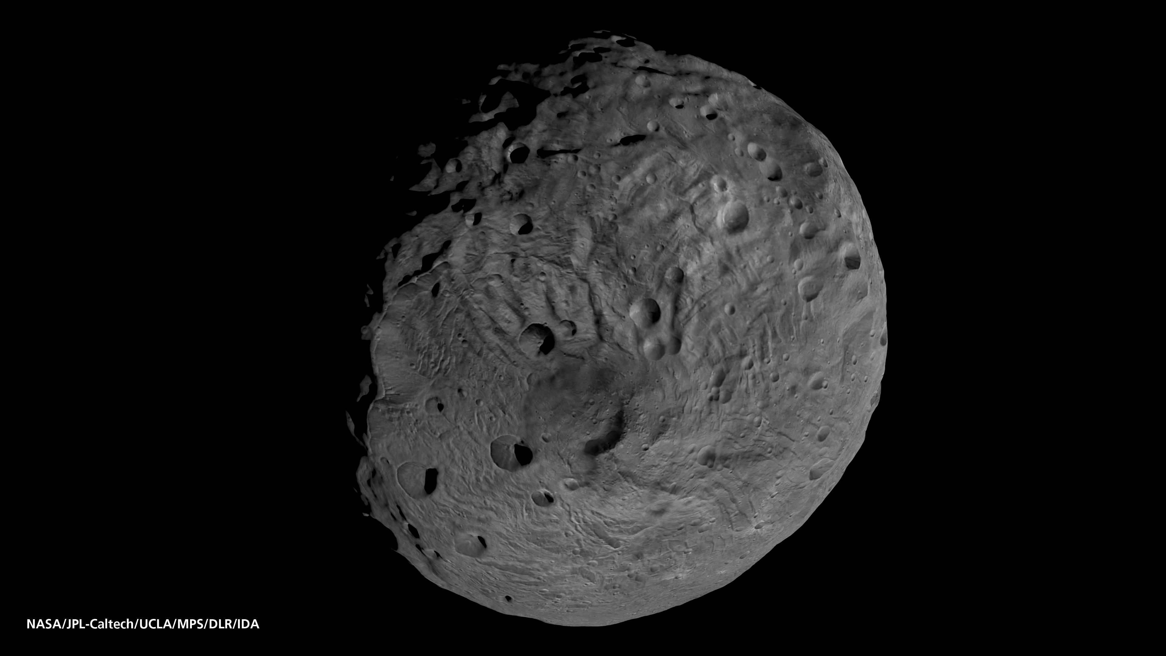 This image shows the south pole of the giant asteroid Vesta. This image obtained by the framing camera on NASA's Dawn spacecraft shows the south pole of the giant asteroid Vesta. Scientists are discussing whether the circular structure that covers most of this image originated by a collision with another asteroid, or by internal processes early in the asteroid's history. Images in higher resolution from Dawn's lowered orbit might help answer that question. The image was recorded with the framing camera aboard NASA's Dawn spacecraft from a distance of about 2,700 kilometres. The image resolution is about 260 meters per pixel.